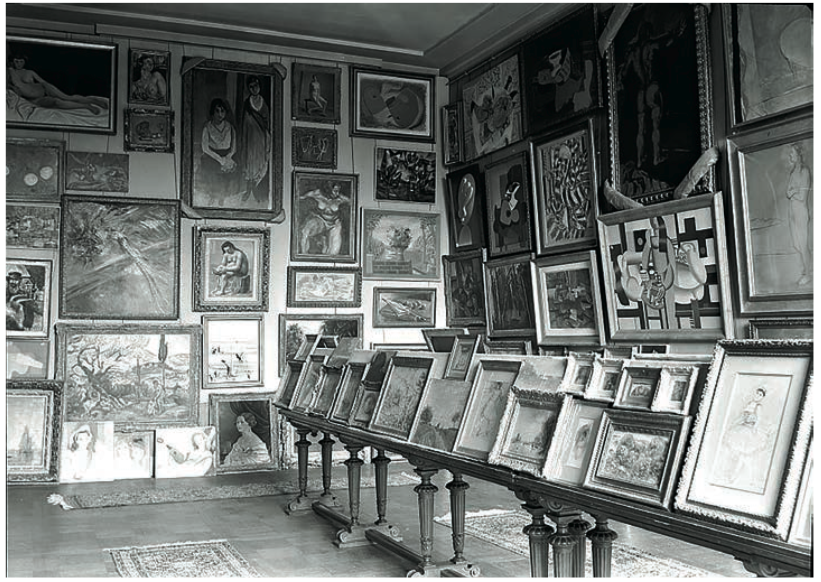 Photography of the "salle des martyrs", taken at the Museum of the Jeu de Paume in Paris (circa 1940) : we can see many paintings stolen by the nazis task forces of the Einsatzstab Reichsleiter Rosenberg.